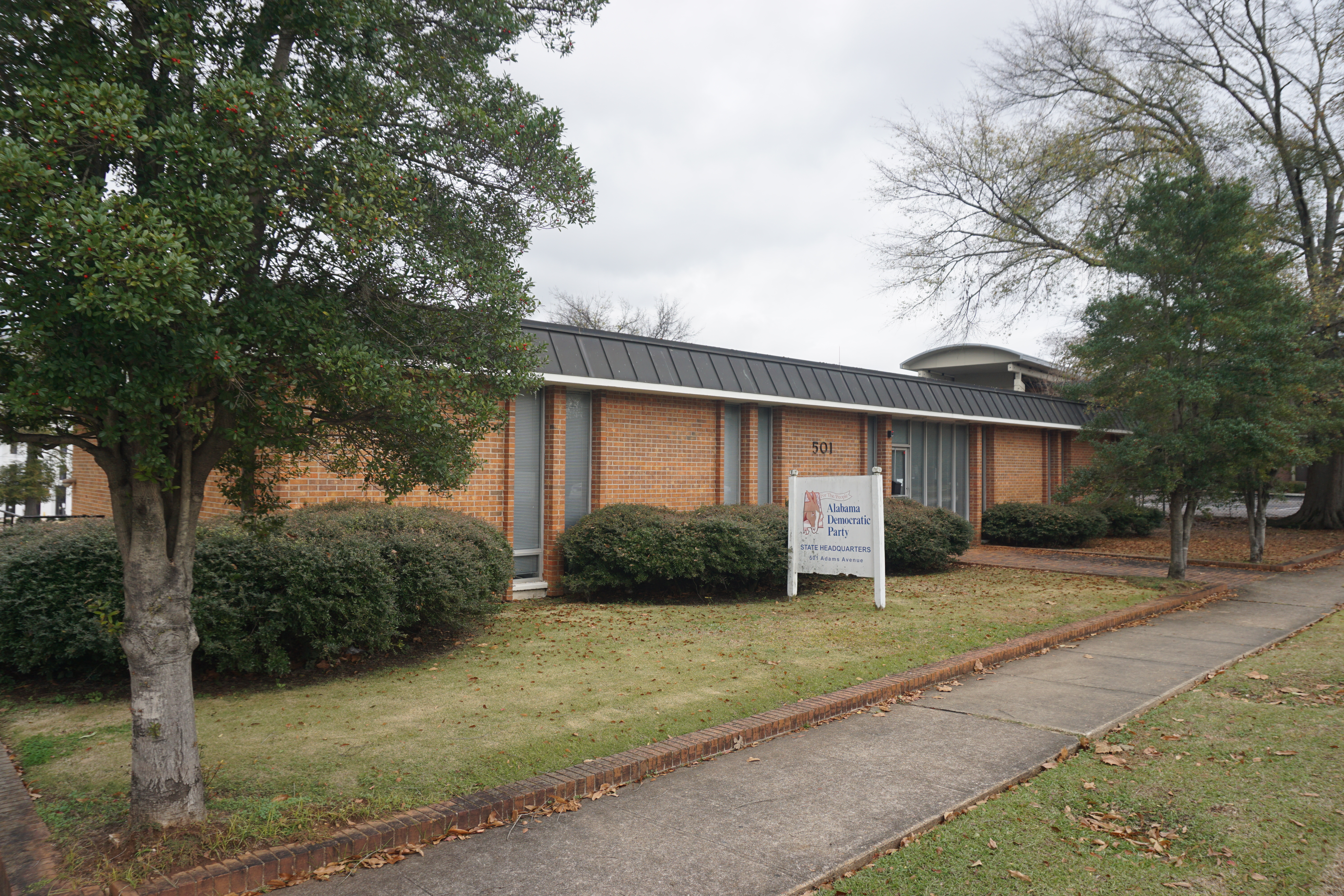 The Alabama Democratic Party State Headquarters in Montgomery, Alabama (United States).